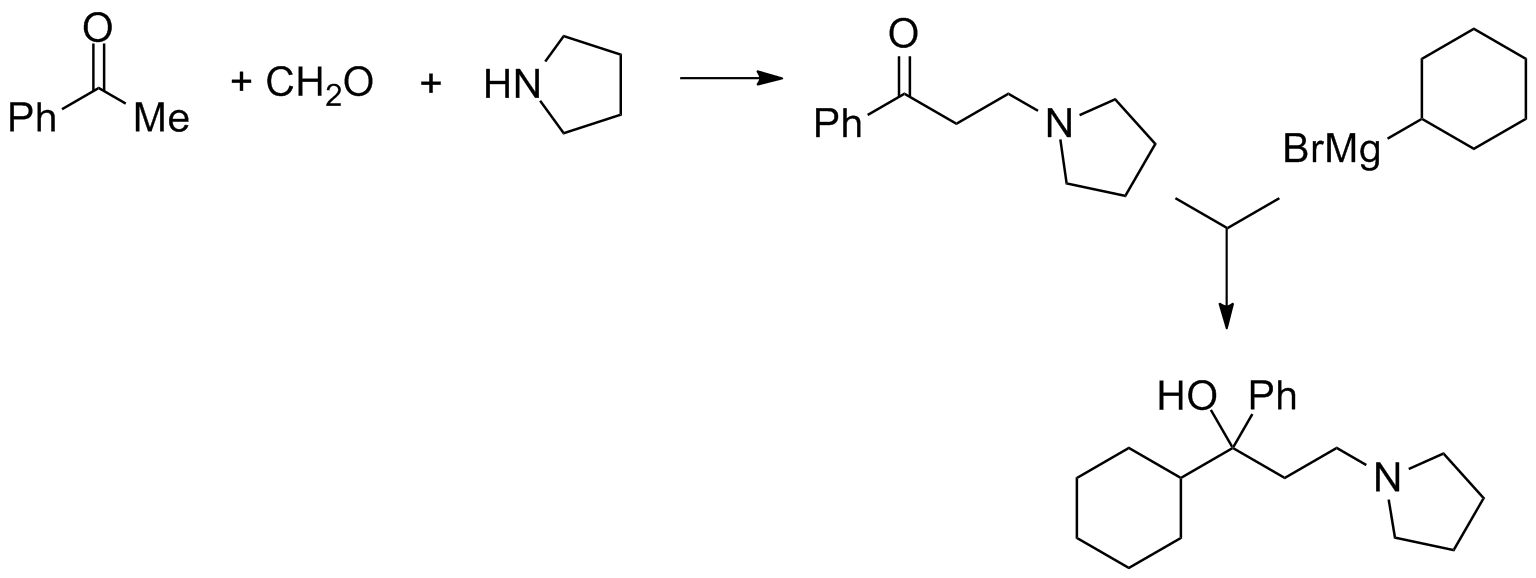 DE patent 1084734 US patent 2826590